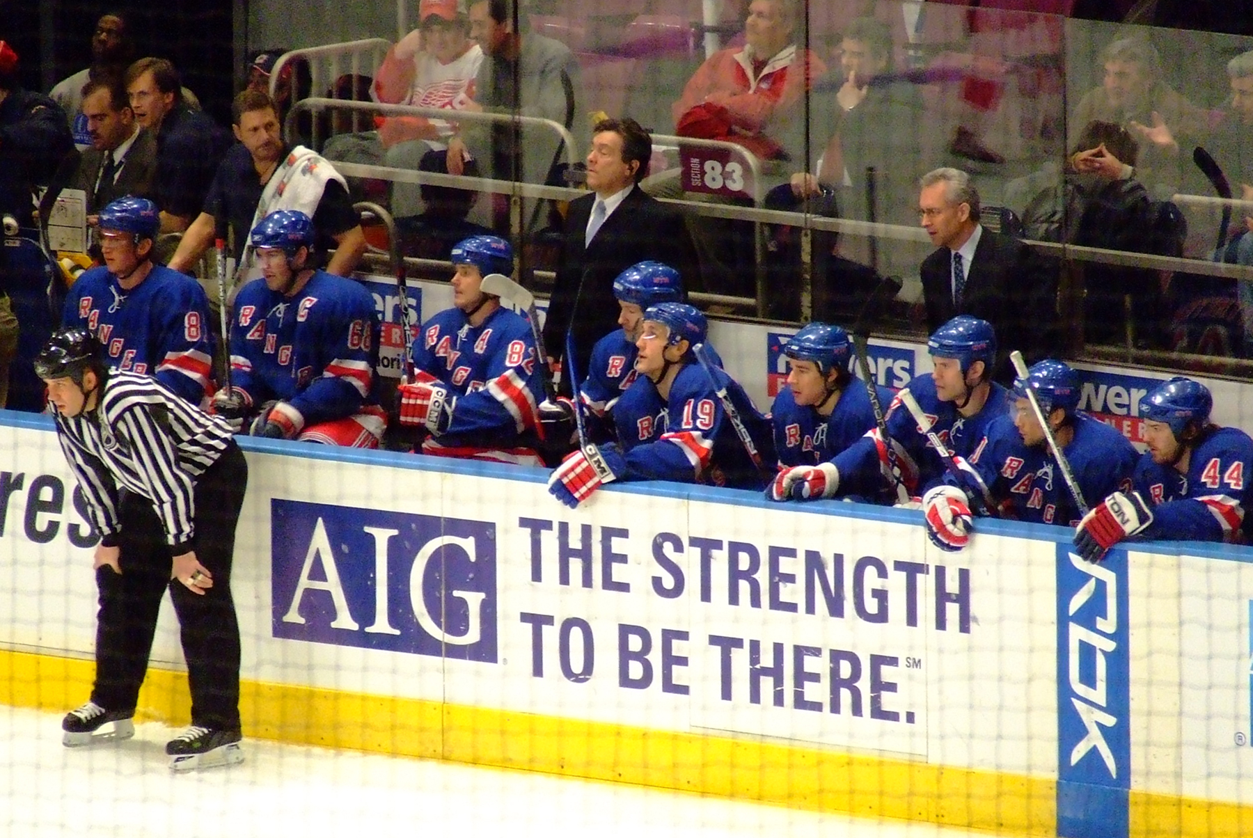 N.Y. Rangers vs. Detroit Red Wings, Madison Square Garden, February 5, 2007